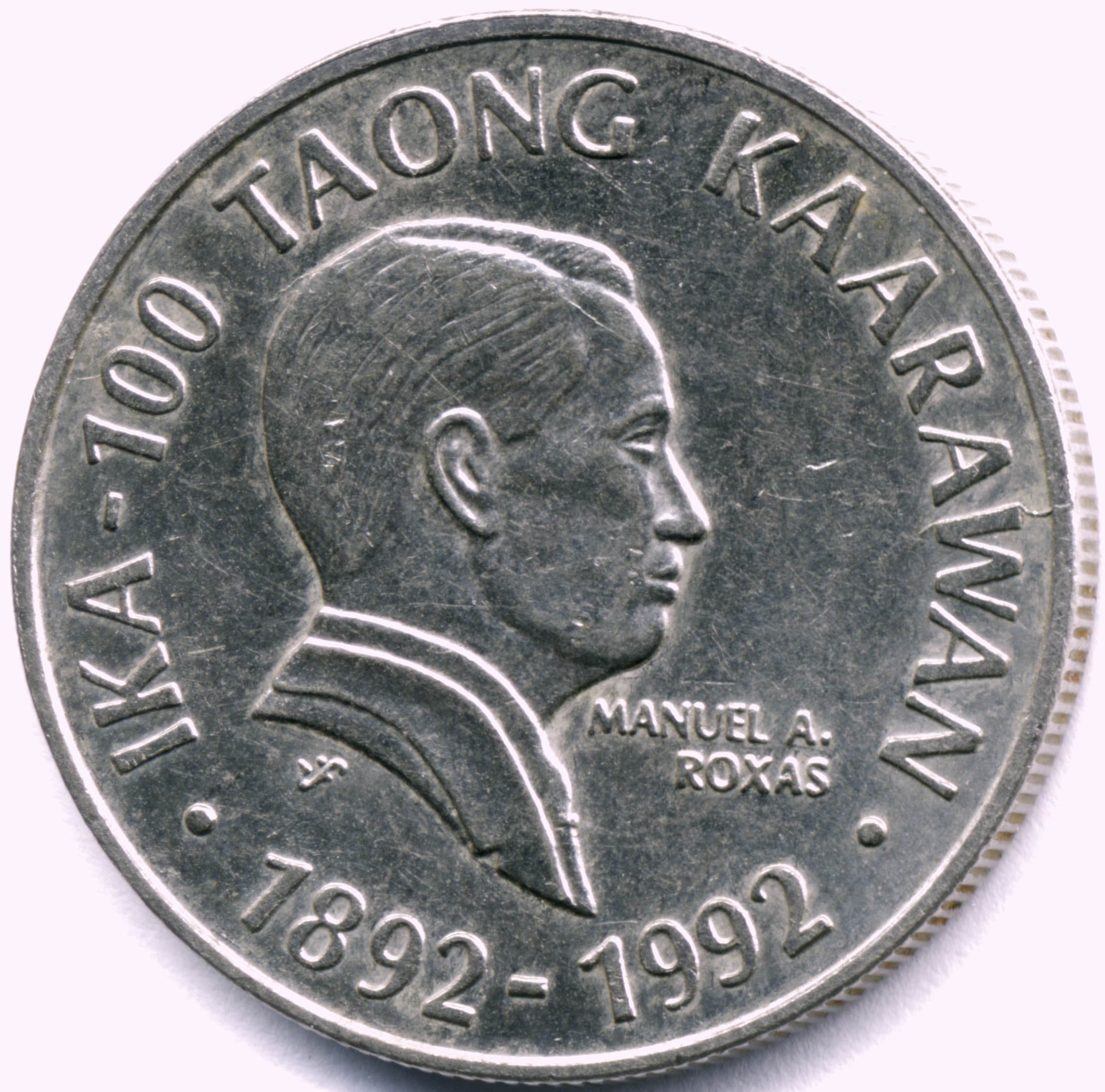 Two Piso coin obverse. Dual dated 1892 1992 Manuel Roxas Commemorative Coin